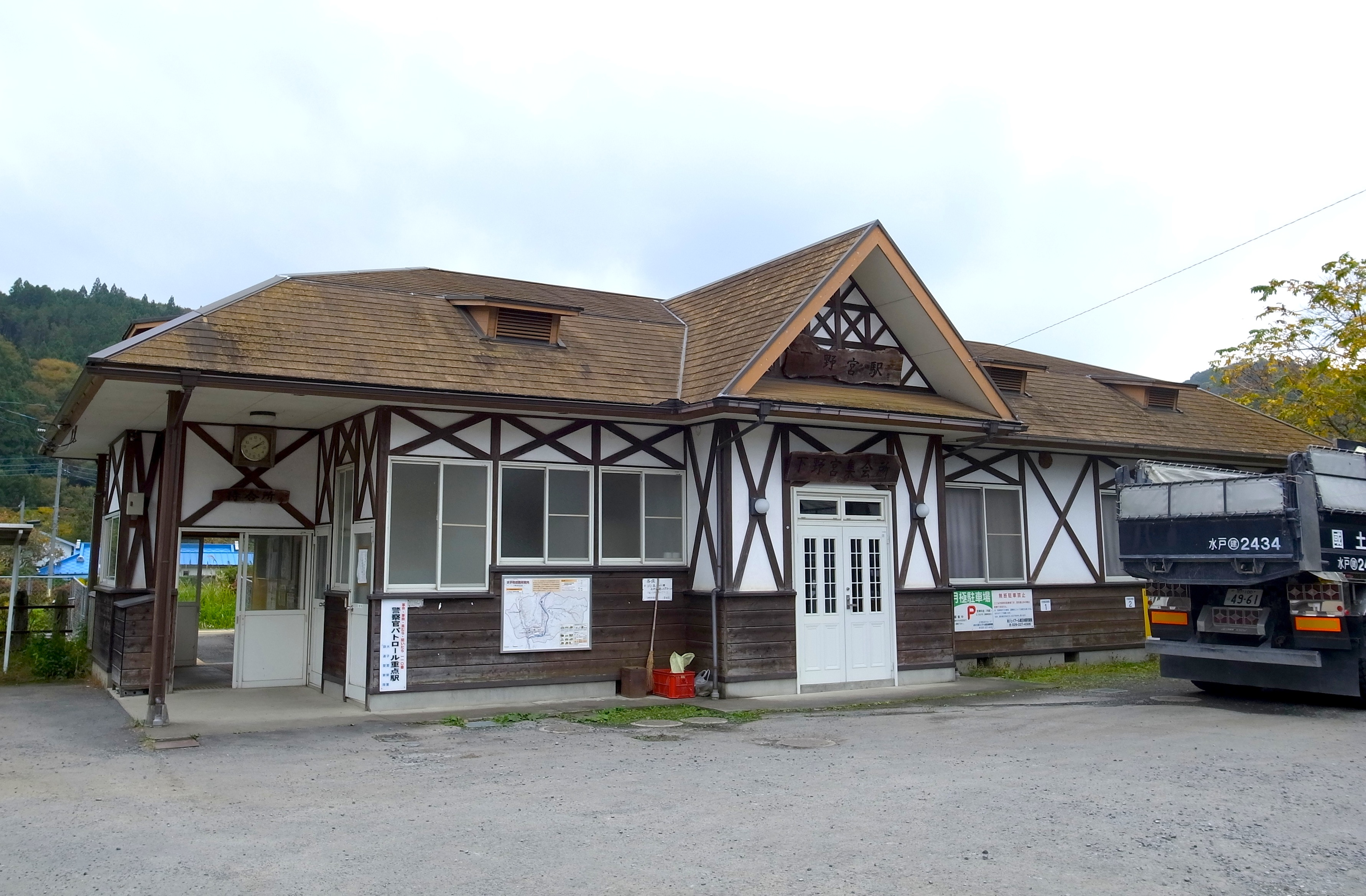 Shimonomiya Station (下野宮駅 Shimonomiya-eki) is a train station in Daigo, Kuji District, Ibaraki Prefecture, Japan. This is a picture of the station building.